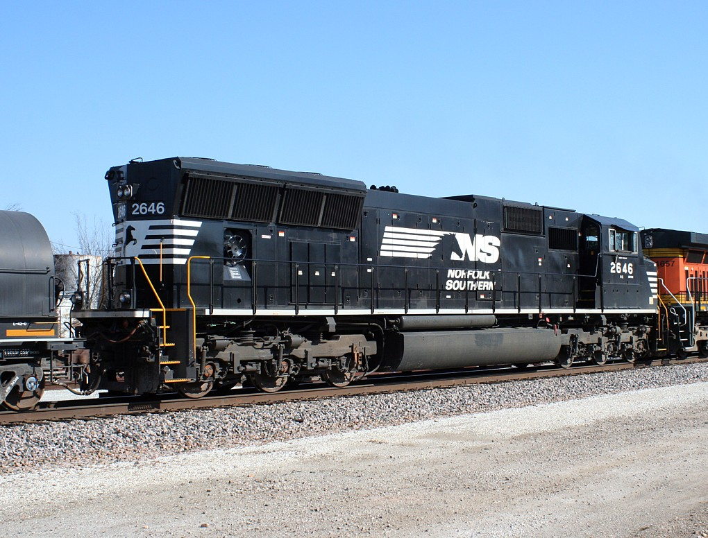 Norfolk Southern #2646, EMD SD70M